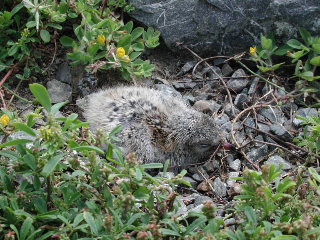 Recently hatched white-fronted tern chick sitting on the ground. South coast of North Island of New Zealand, near Wellington.